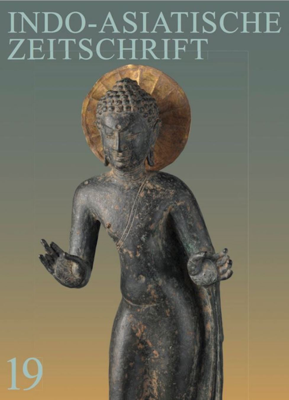 The Indo-Asian Journal (IAZ) is an art-historical journal with articles in German and English language. It is published by the Society for Indo-Asian Art Berlin e.V. and published annually.